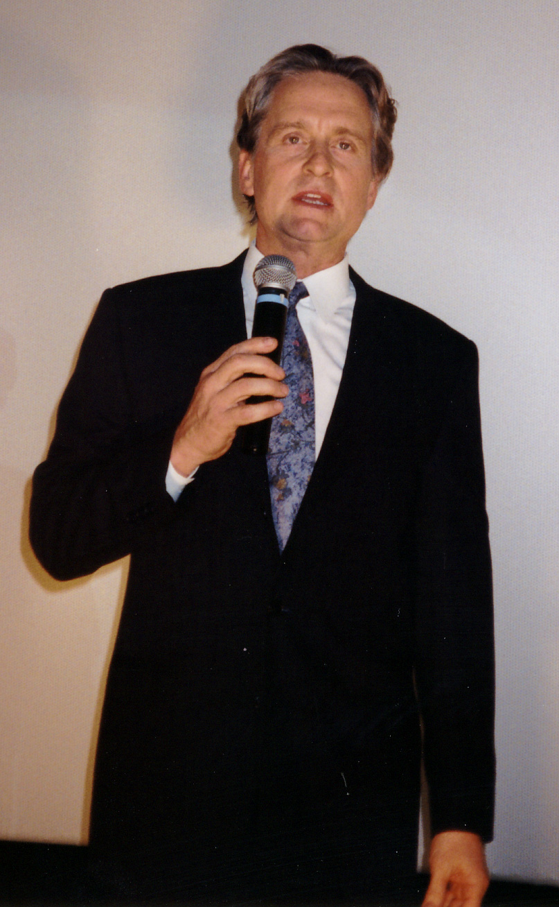 Michael Douglas. The Photo was taken at the Cinedom Movie Theater in Cologne, Germany. Mr. Douglas was on promotion tour for his movie "The Ghost And The Darkness"